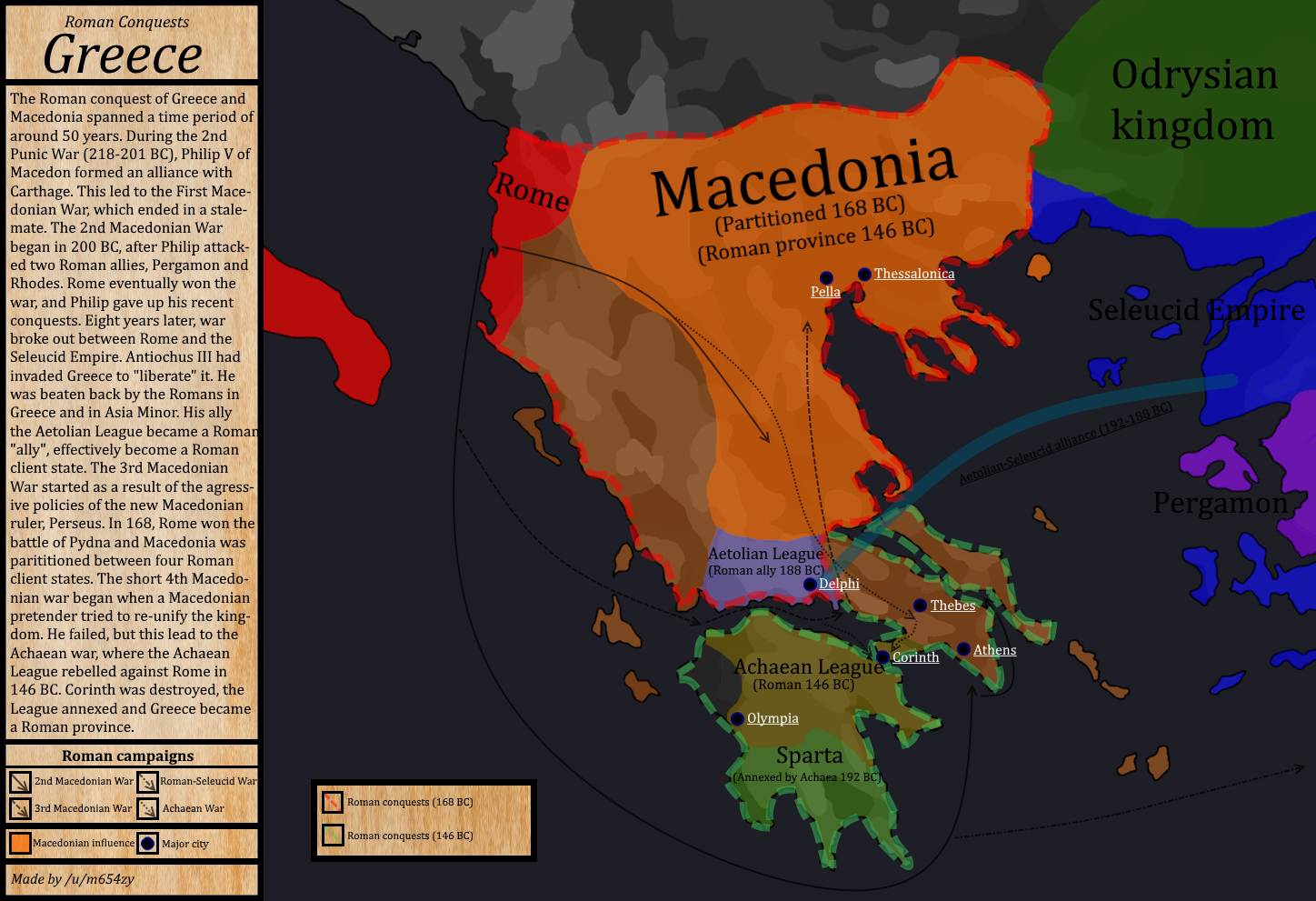 This map shows how Rome conquered Macedonia and Greece.